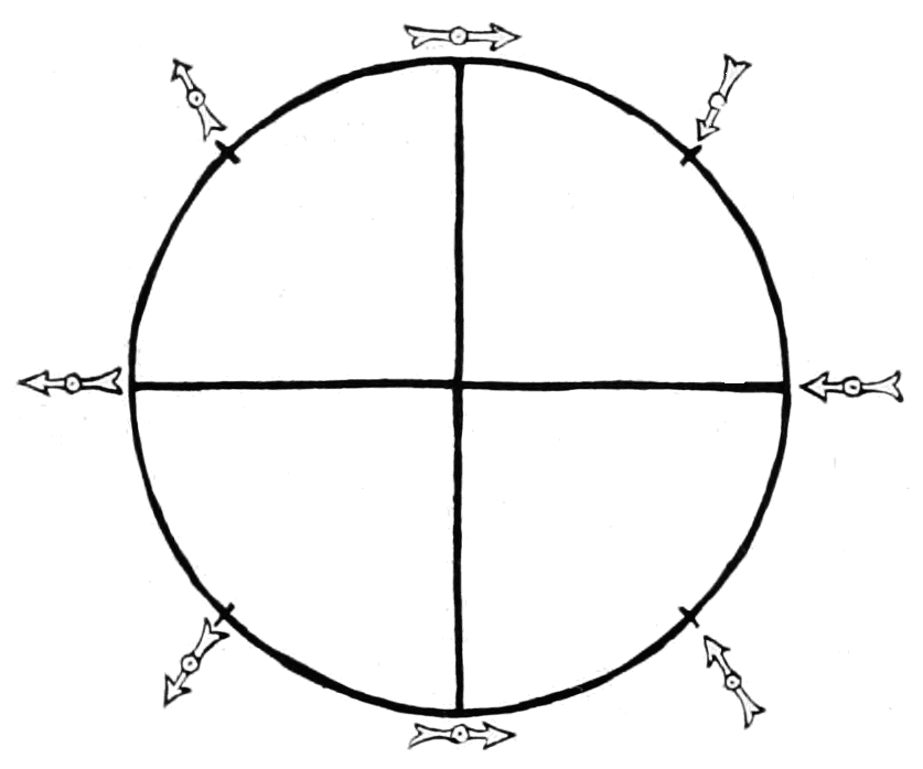 Gilbert terella with dipping needle directions